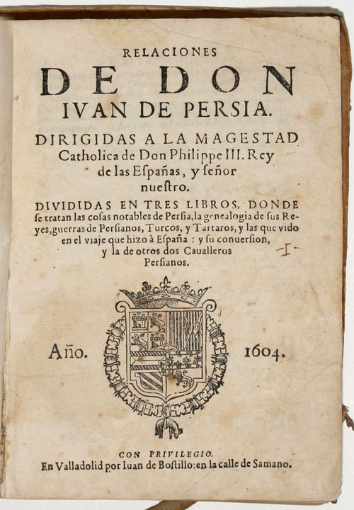 "Relaciones de Don Juan de Persia. Valladolid, Juan de Bostillo, 1604." A diary from the 1599-1602 Persian embassy by a secretary in the company of Sir Robert Sherley, namely Don Juan of Persia.